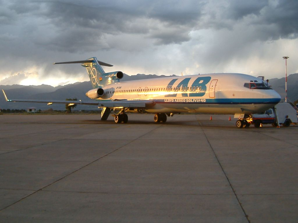 Boeing 727-200 operated by Lloyd Aereo Boliviano at Jorge Wilsterman Airport